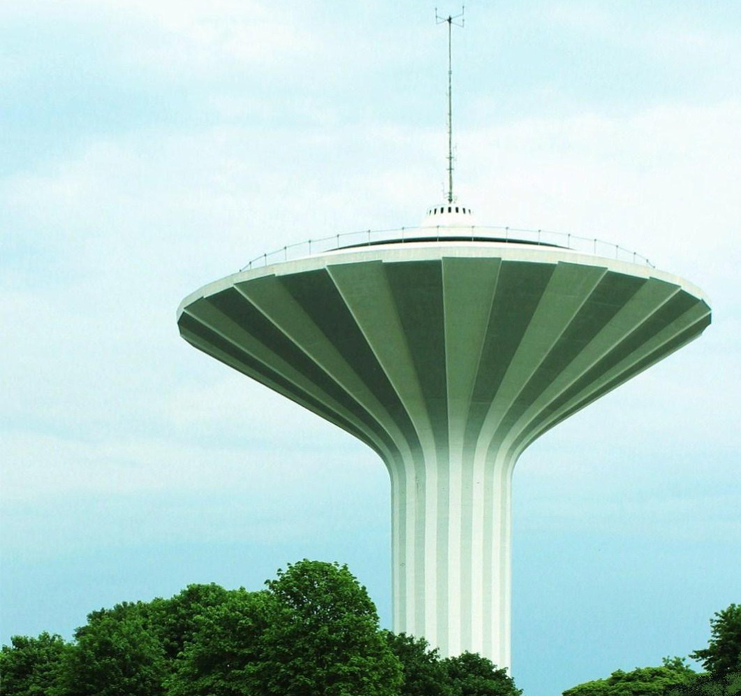 Mushroom-shaped, concrete water tower "Svampen", Örebro, Sweden